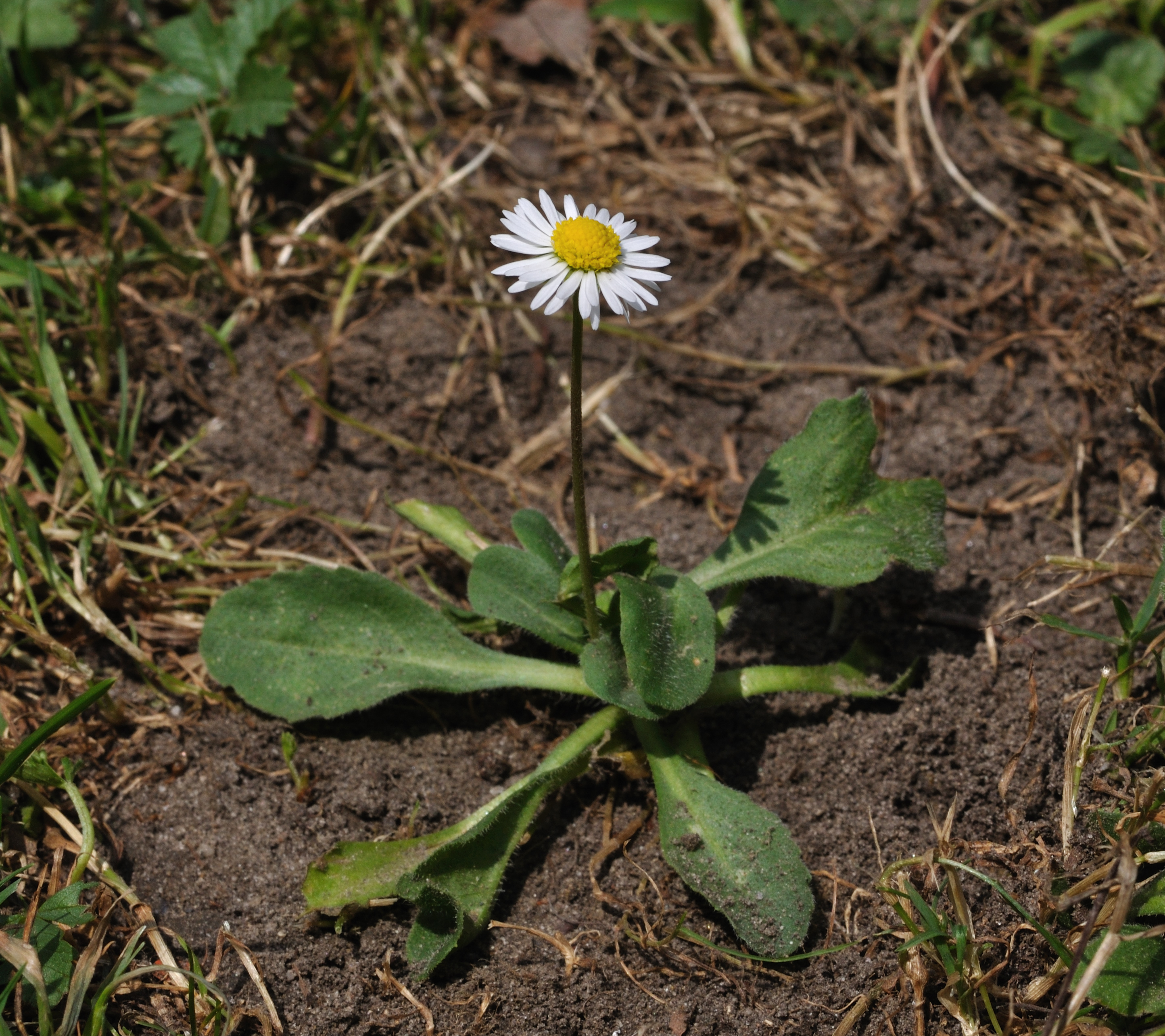 Common daisy (Bellis perennis).